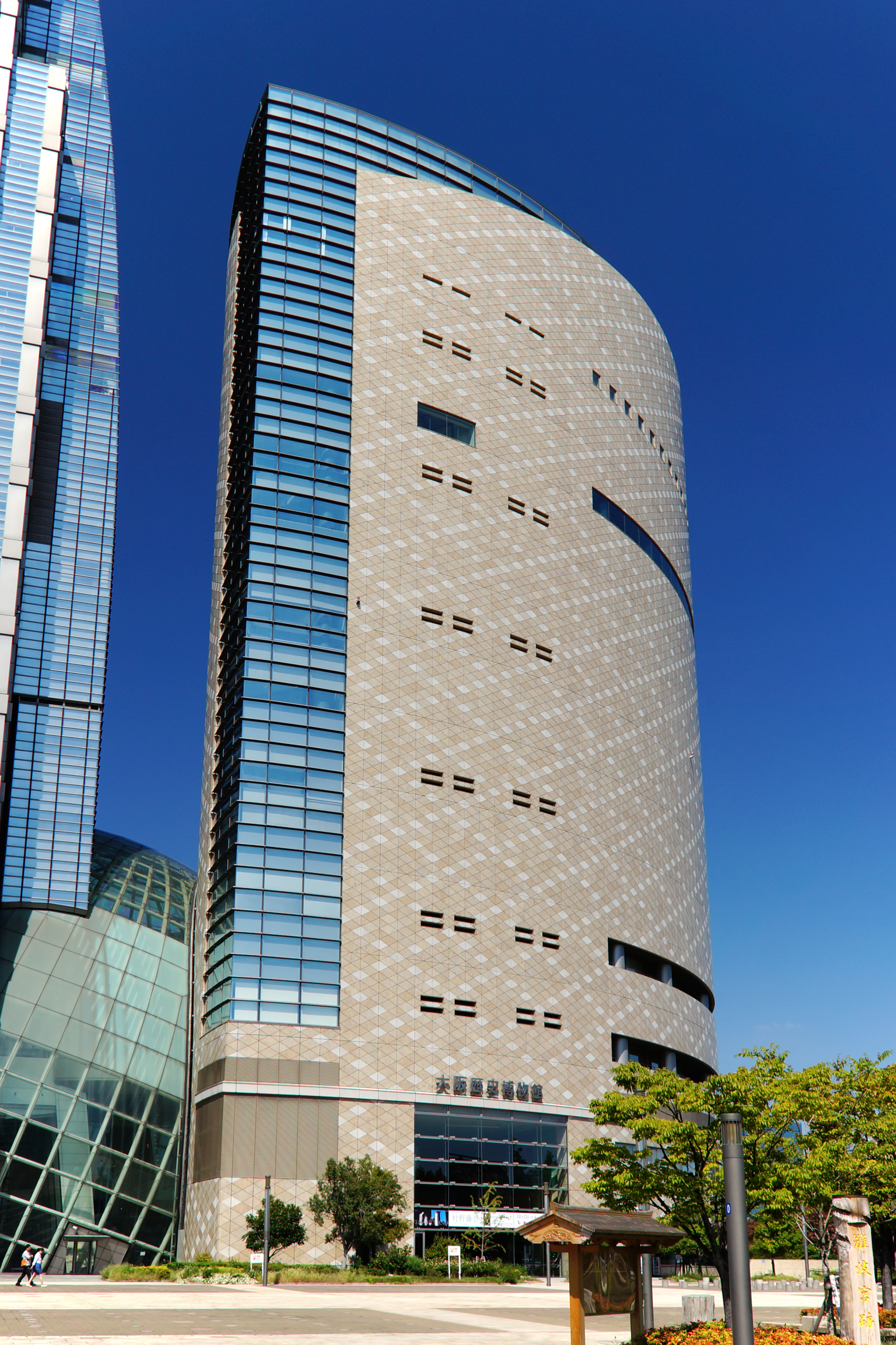 Osaka Museum of History in Osaka, Osaka prefecture, Japan